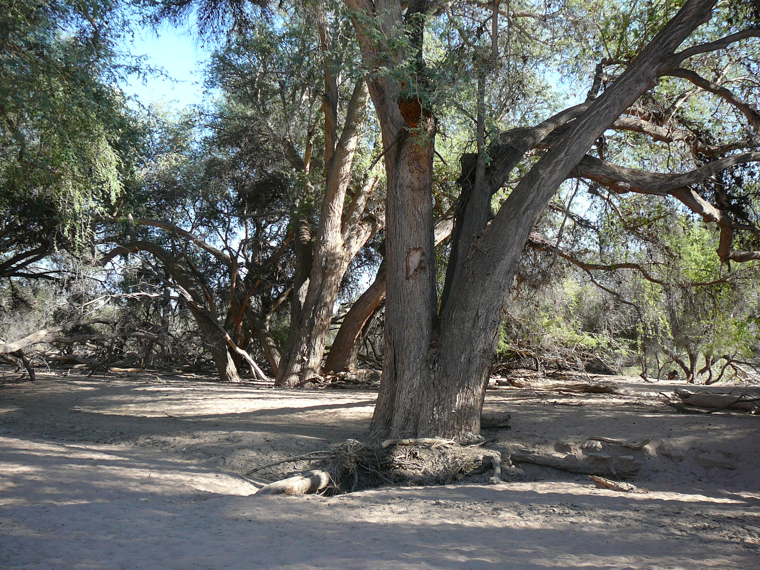 Apple-ring Acacia